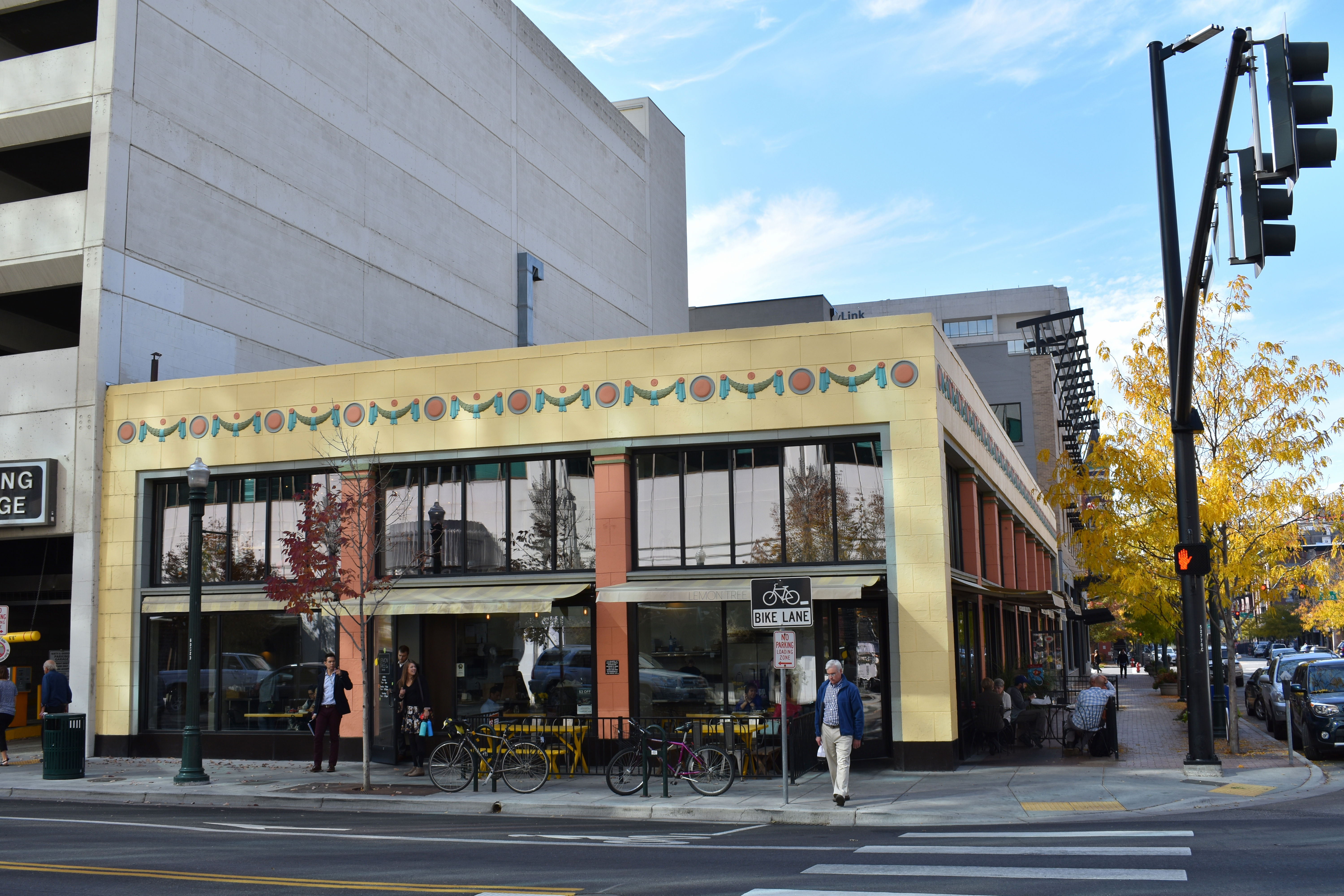 The John Tourtellotte Building (1927) was the headquarters of Tourtellotte & Hummel in Boise, Idaho. The building was listed on the National Register of Historic Places in 1982.